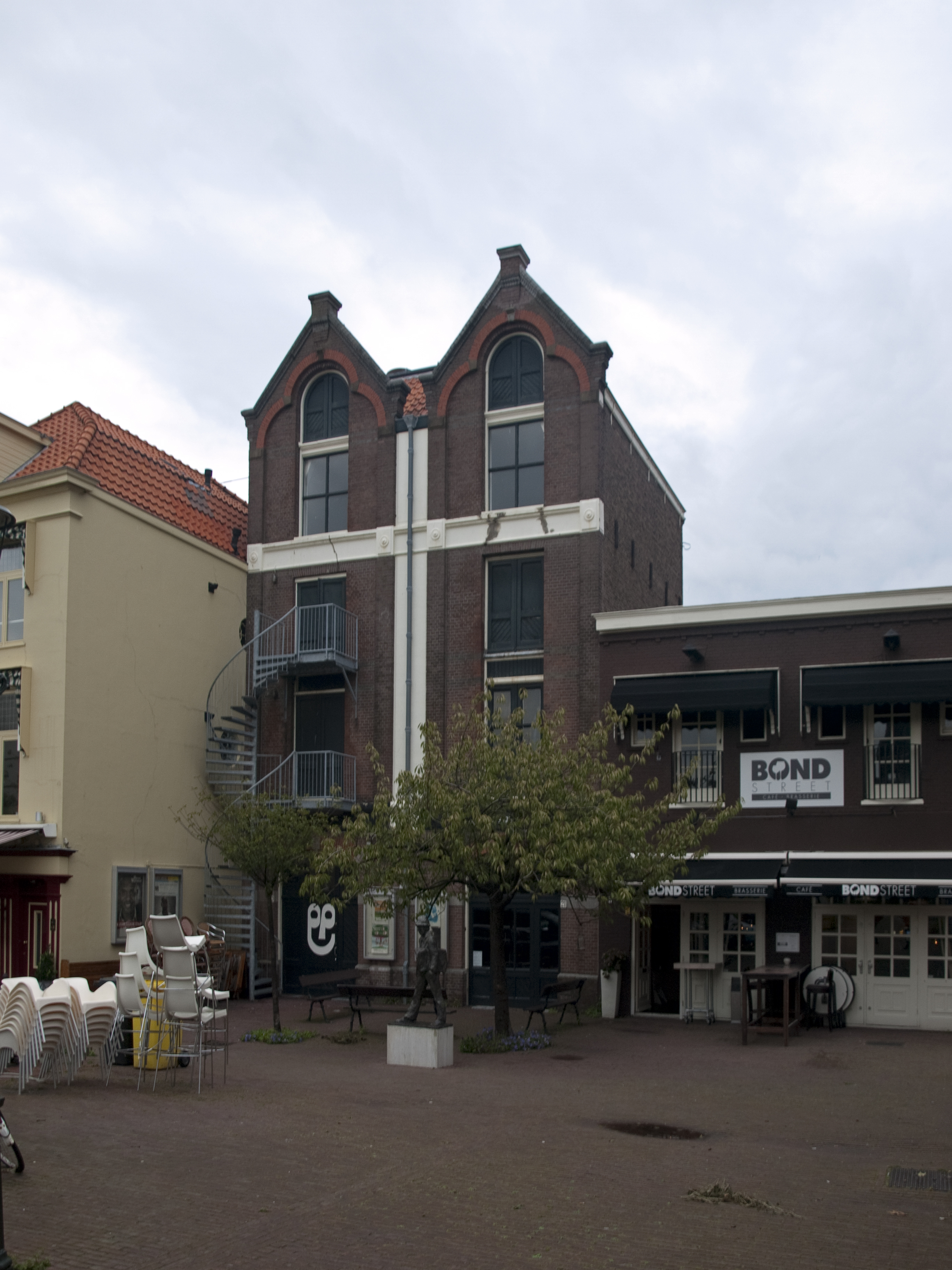 Theater Pepijn/Filmhuis at Nieuwe Schoolstraat 21+23 (center), the Hague